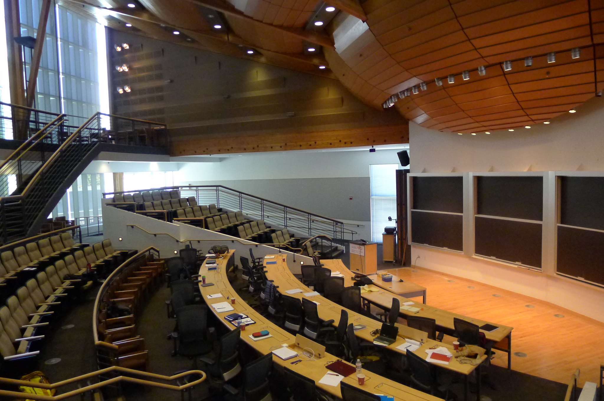 Simons Auditorium at the Mathematical Sciences Research Institute, Berkeley.